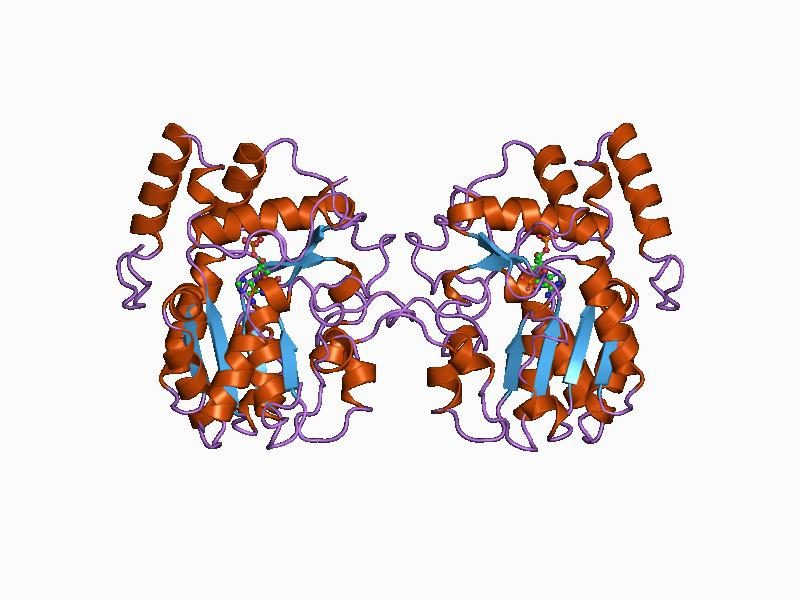 Cartoon representation of the molecular structure of protein registered with 1aqy code.